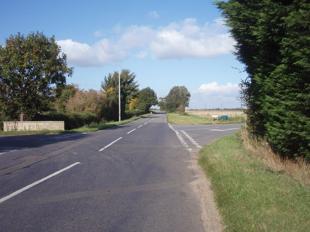 Stowe Road/ King Street Crossroads Crossroads: Stowe Road intercepts King Street (Roman Road) west of Langtoft.